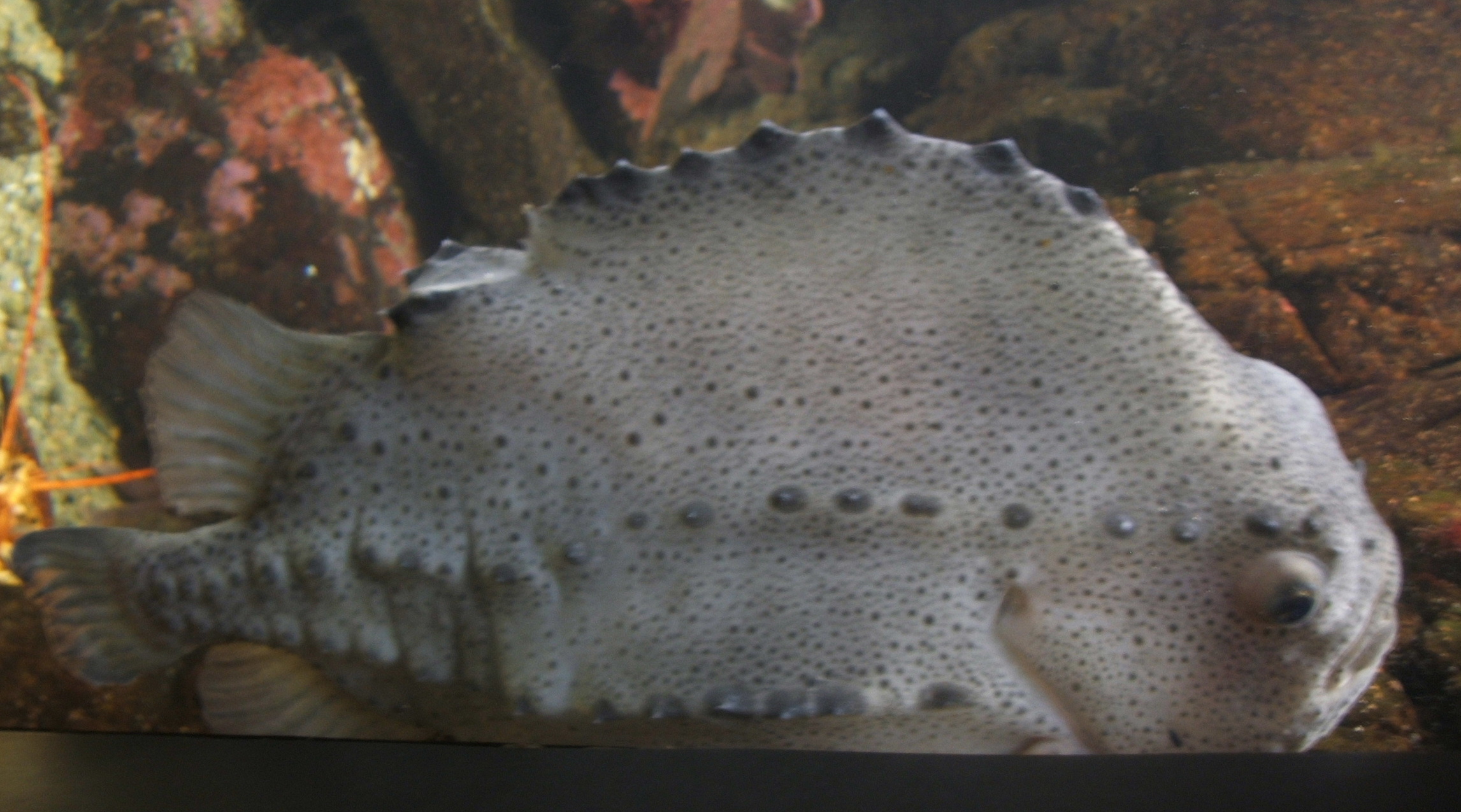 Lumpfish (Cyclopterus lumpus). Taken at the New England Aquarium (Boston, MA, December 2006. Copyright © 2006 Steven G. Johnson and donated to Wikipedia under GFDL and CC-by-SA.